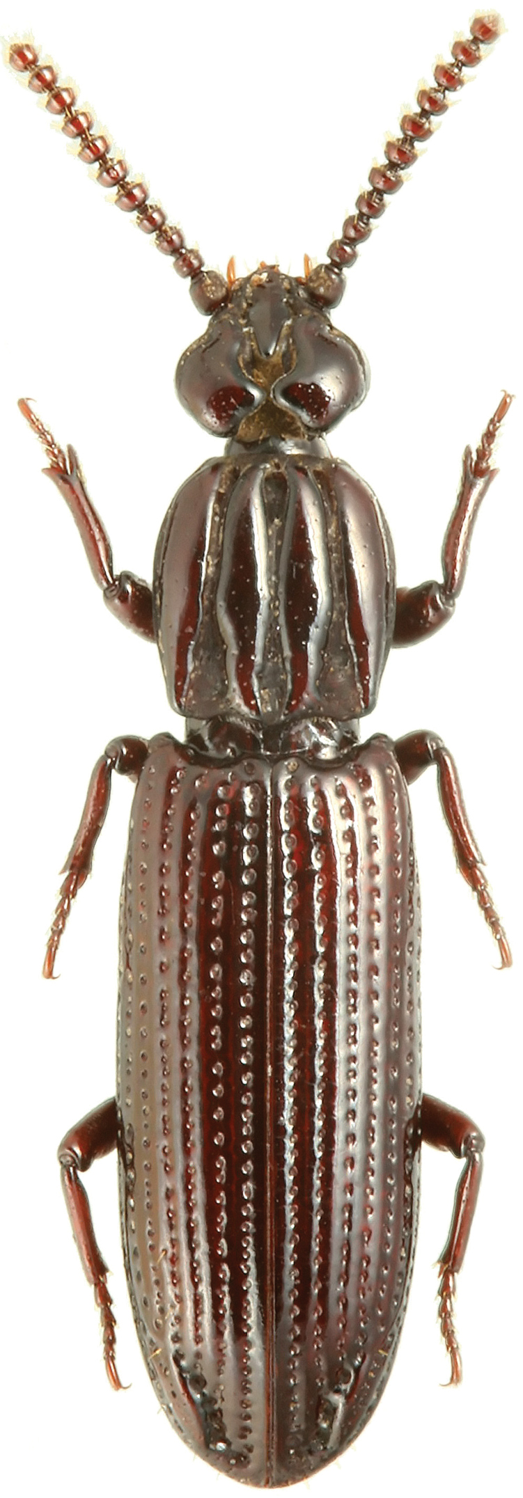 Omoglymmius americanus (Laporte). This species is one of the seven rhysodid species-group taxa found in eastern North America. These species live in decaying wood, such as logs, stumps or roots, where they feed on slime molds and fungi. The carabids, on the other hand, are carnivorous, herbivorous, or omnivorous feeding on both animal and plant matters.